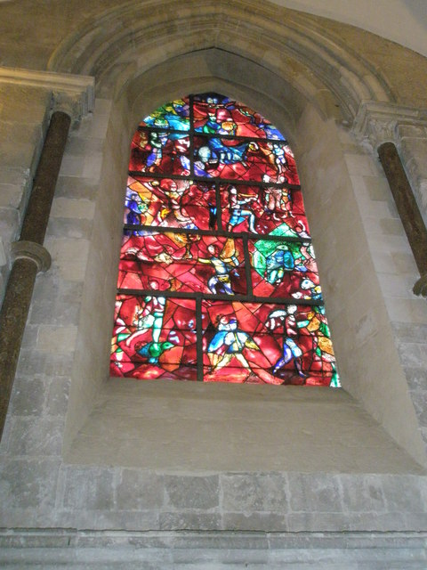 The Chagall Window on the south wall at Chichester Cathedral By the great Russian artist Chagall, it is based on Psalm 150 and was unveiled in 1978